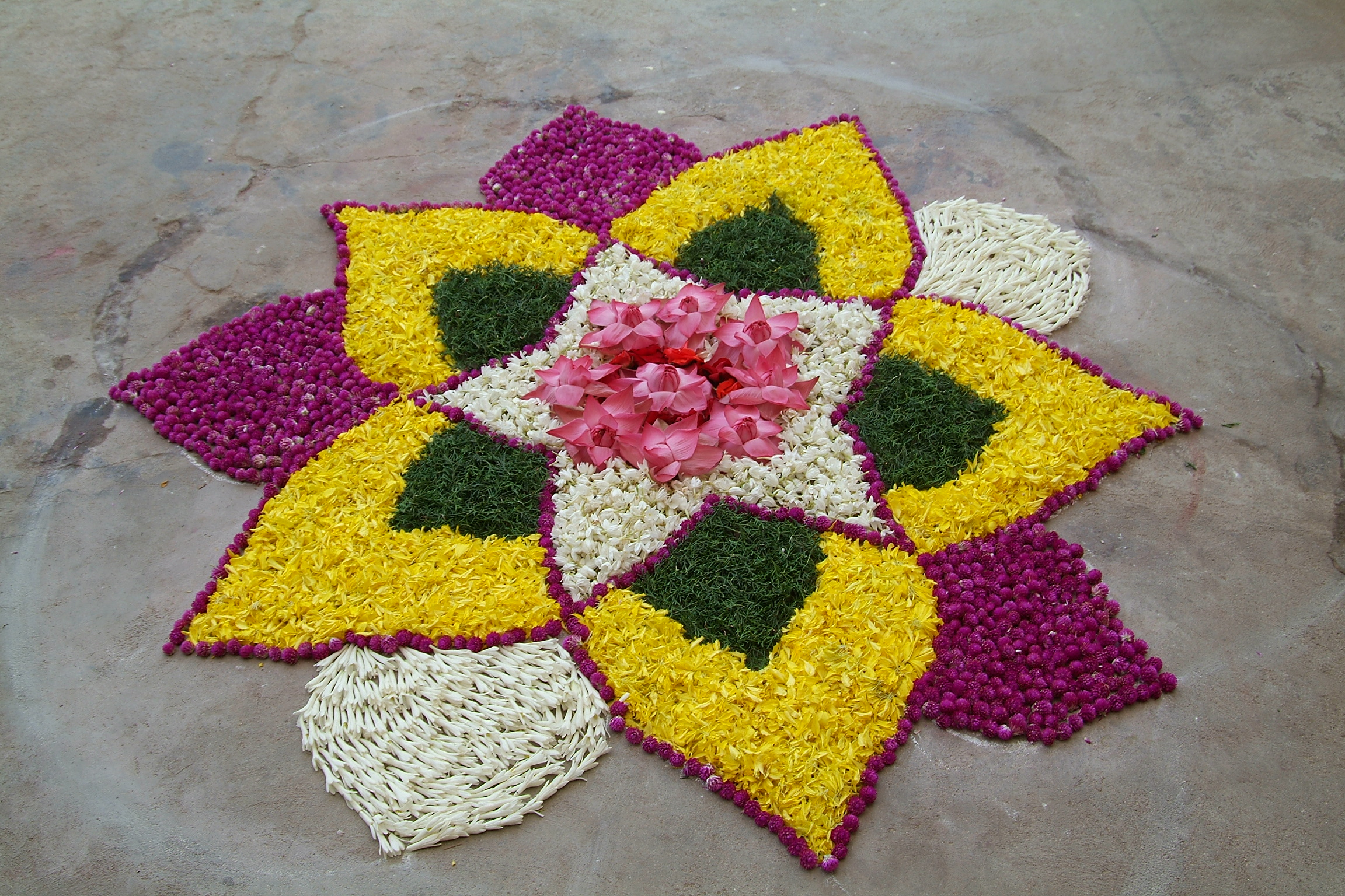 Flower rangoli Chennai.